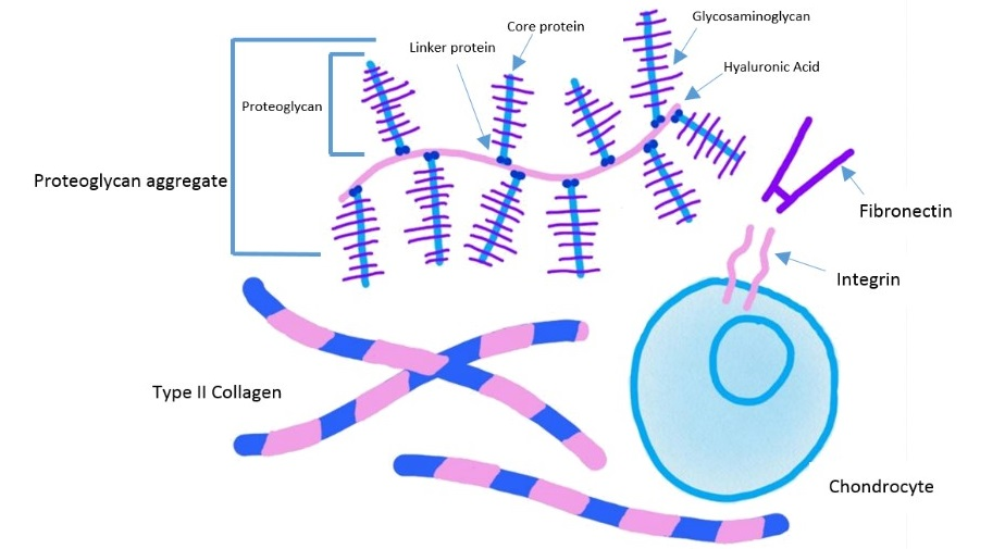 The extracellular matrix of cartilage is mainly composed of proteoglycan aggregates, collagen, glycoproteins such as integrins and fibronectin.